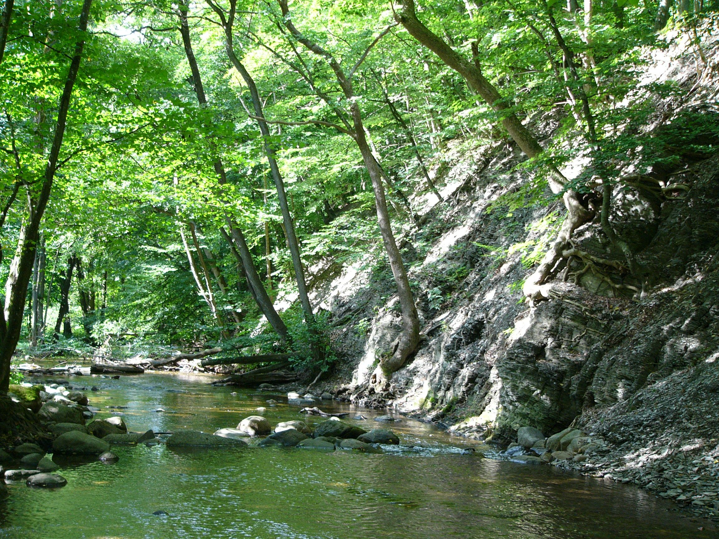 Bråån, Rövarekulan, Skåne, Sweden